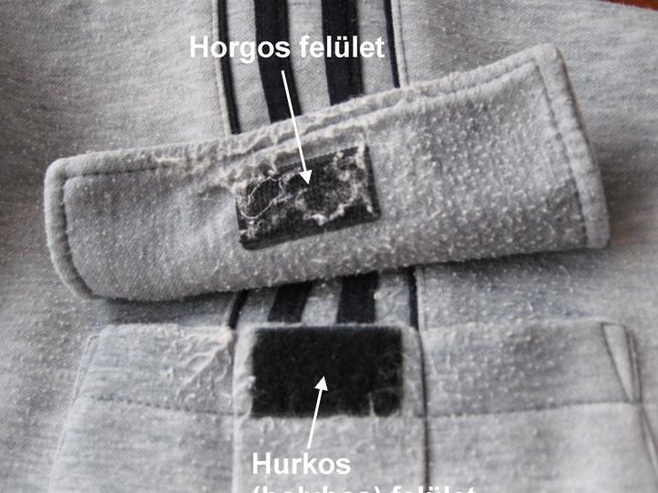 Velcro on a pocket. You can see that during long-time use the hooks pull out fibres from the fabric which contaminates the Velcro. (Hurkos felület = Loops, Horgos felület = Hooks.)